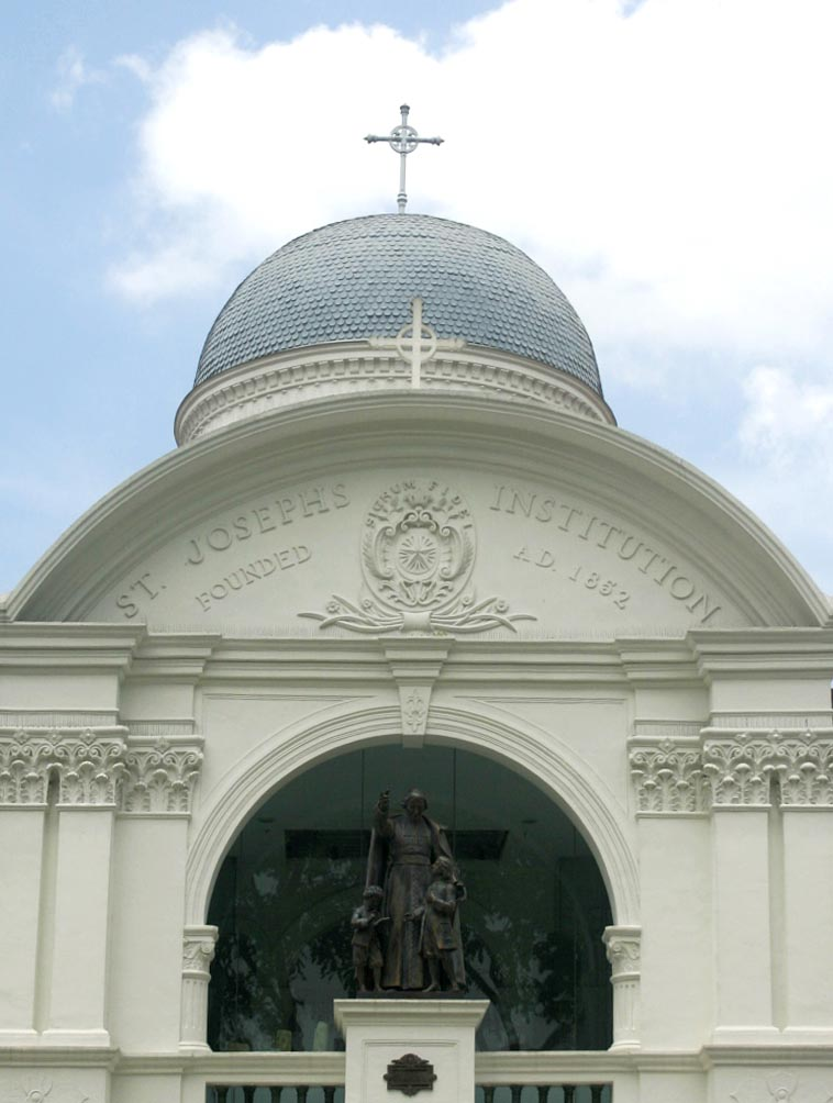 Close-up of sculpture of Father Jean-Marie Beurel on former SJI building at Bras Basah